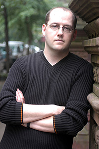 Author Brad Meltzer